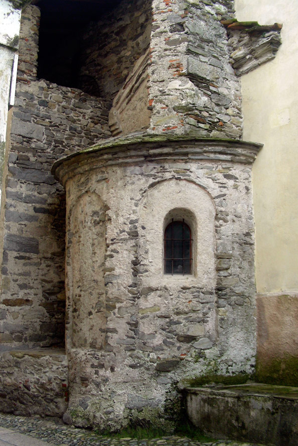 Italy, Pedimont, province of Verbano Cusio Ossola, Stresa, Isola dei Pescatori or Isola Superiore, church of San Vittore, romanic apse